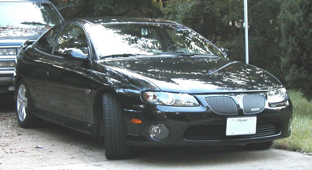 2004 Pontiac GTO photographed in USA.